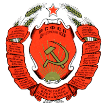 Coat of Arms of Dagestan ASSR